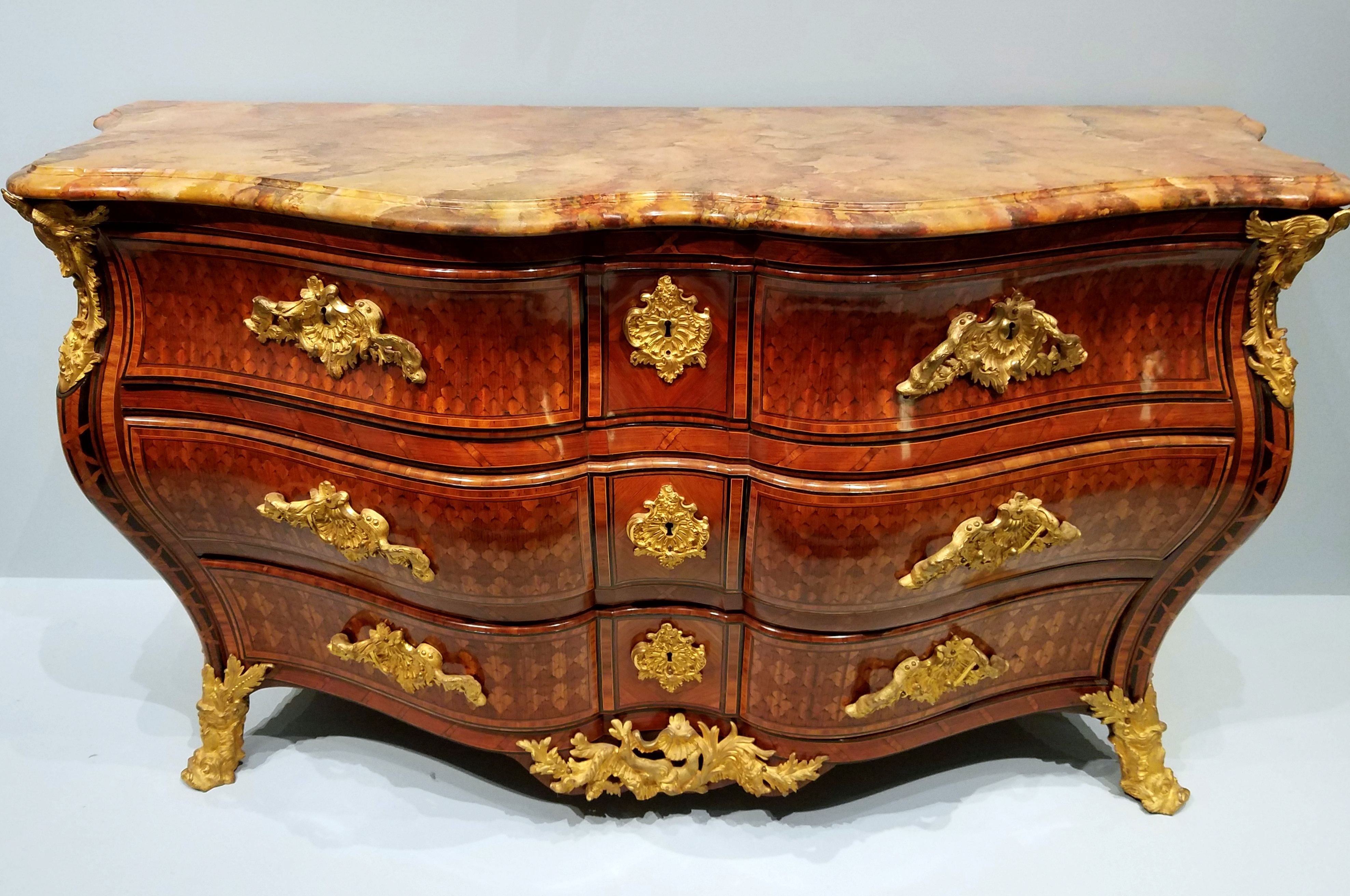 Exhibit in the Museum of Fine Arts, Boston, Massachusetts, USA.